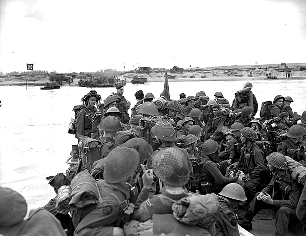 Personnel of Royal Canadian Navy Beach Commando "W" landing on Mike Beach, Juno sector of the Normandy beachhead. June 6th, 1944. Most are wearing Mk III helmets. From the National Archives of Canada.